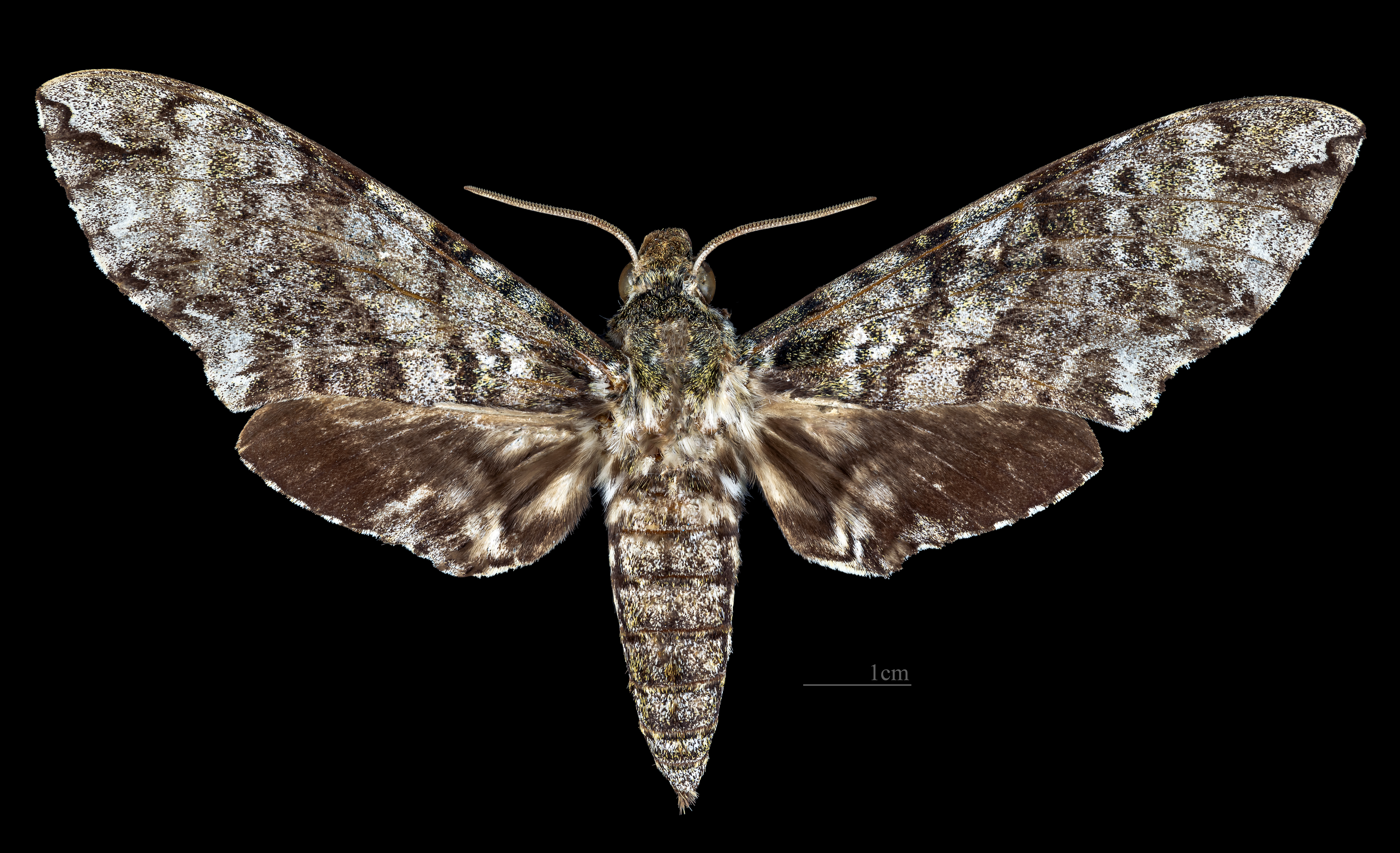 Manduca extrema - Dorsal side Collection of the Mathematician Laurent Schwartz